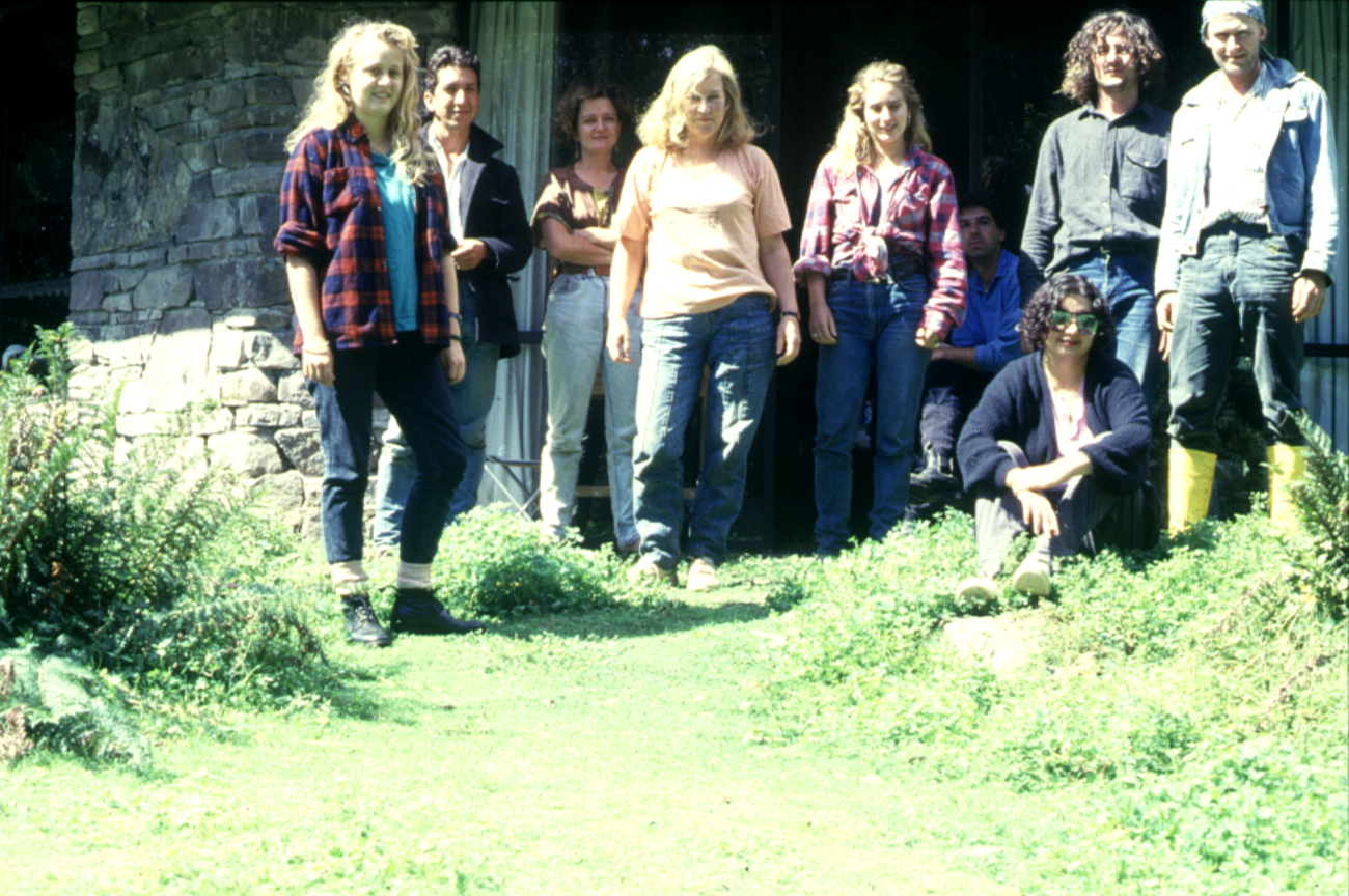 Val Plumwood fourth from left outside stone house she built with Richard Sylvan on Plumwood Mountain.